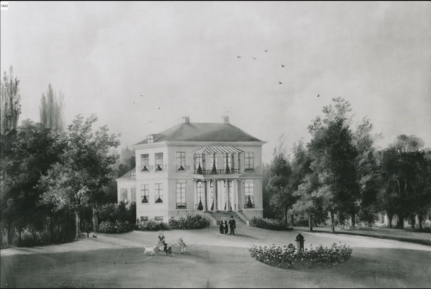 Andries de Wilde and Cornelia Henrica de Wilde-Neitzel in front of their house Pijnenburg